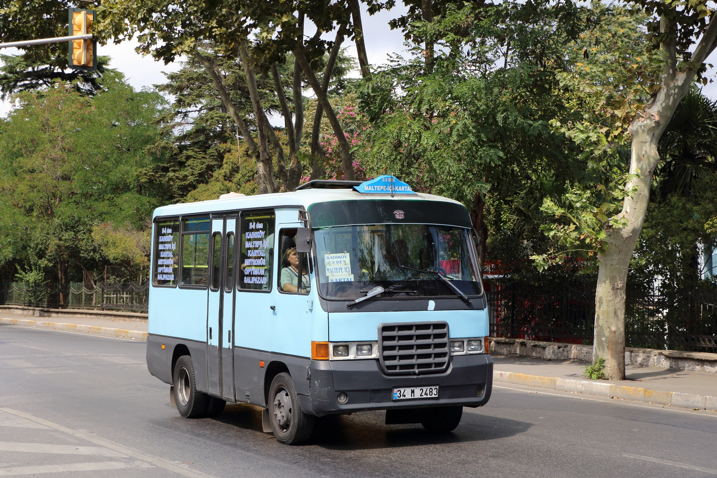 Minibus in Istanbul, Turkey (Otokar M2000)